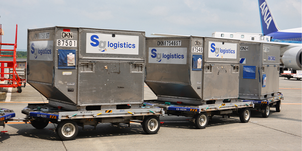 Unit Load Device Type LD-3